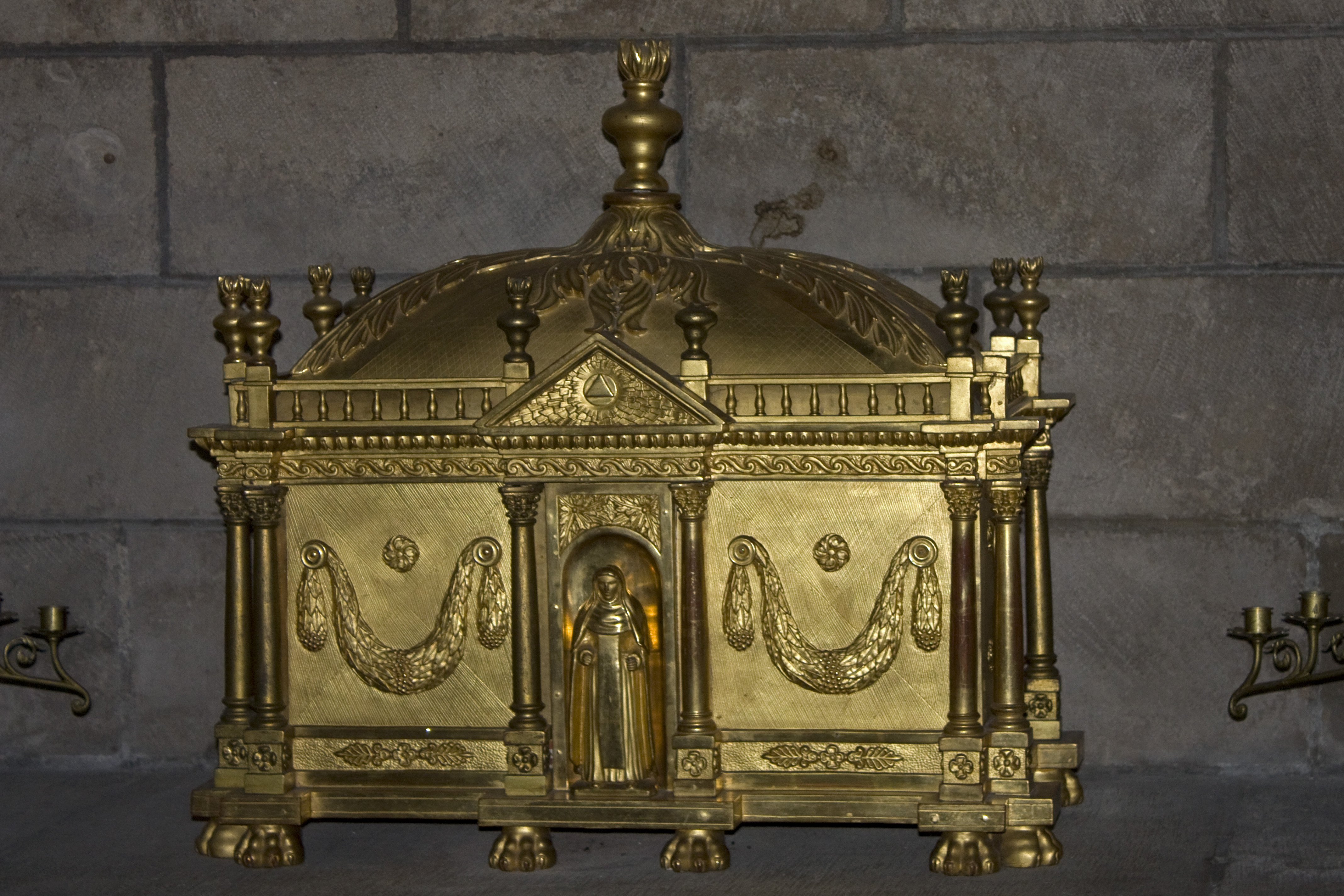 Chest containing the relics of St. Godeberthe.